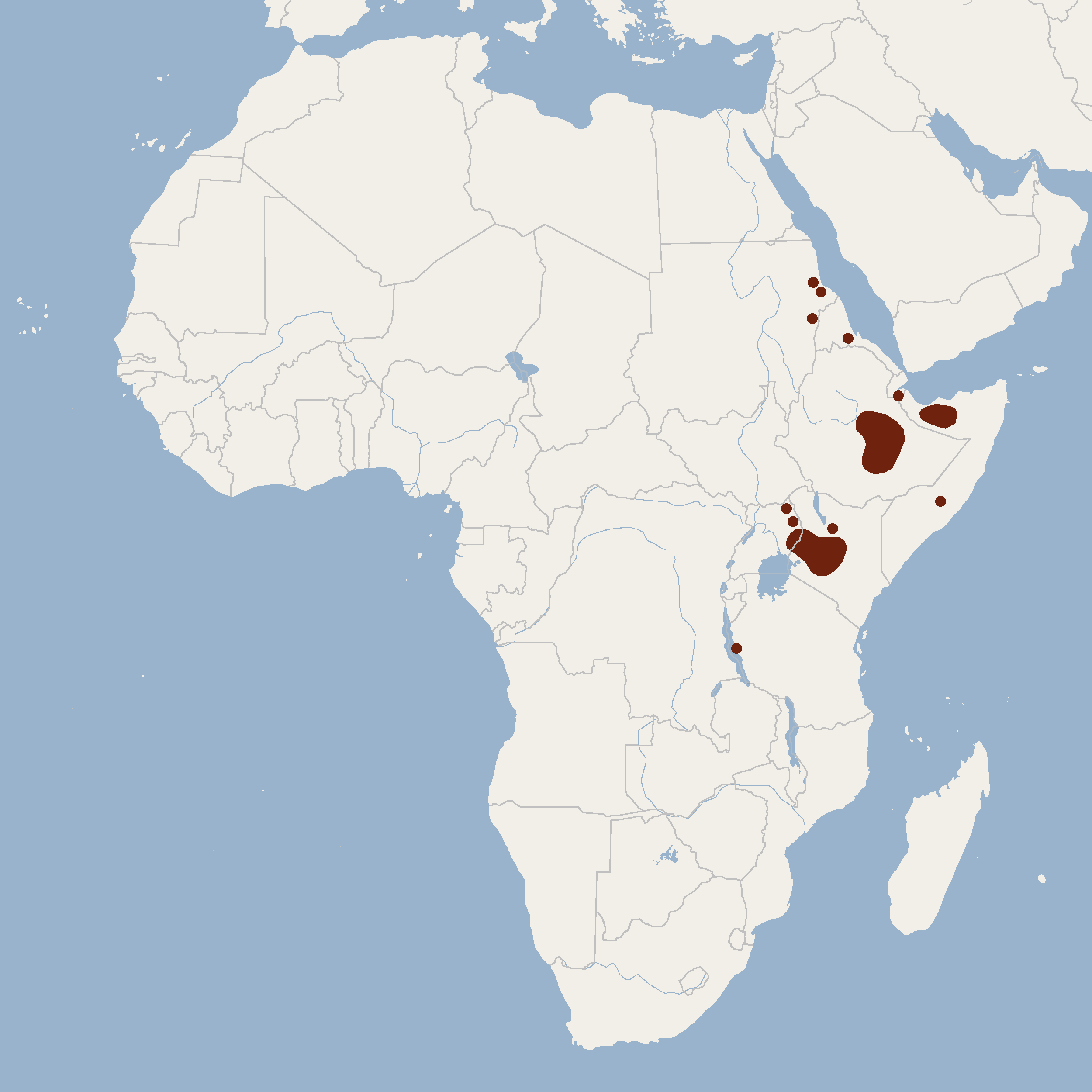 According to Happold, 2013